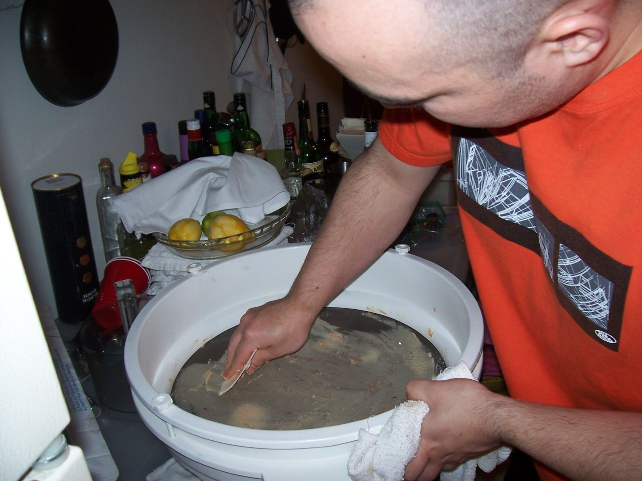 Man using a tamis in food preparation.